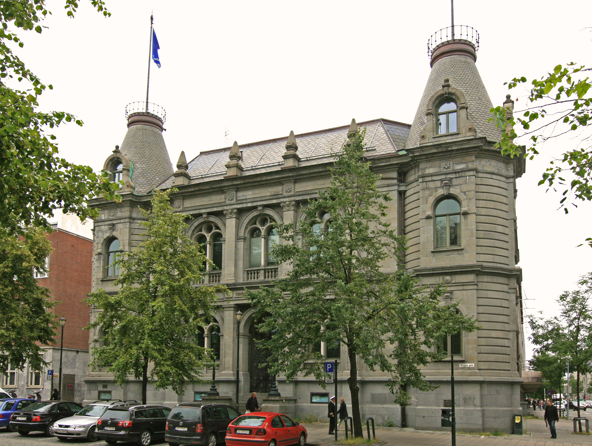 Trondhjems Sparebank, Kongens gate 4, Trondheim. Built 1882; architect Adolf Schirmer.